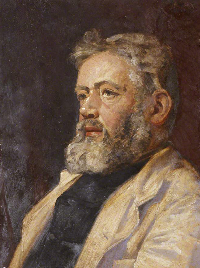 Self portrait as Sea Captain oil on canvas, 60.6 x 50.6 cm